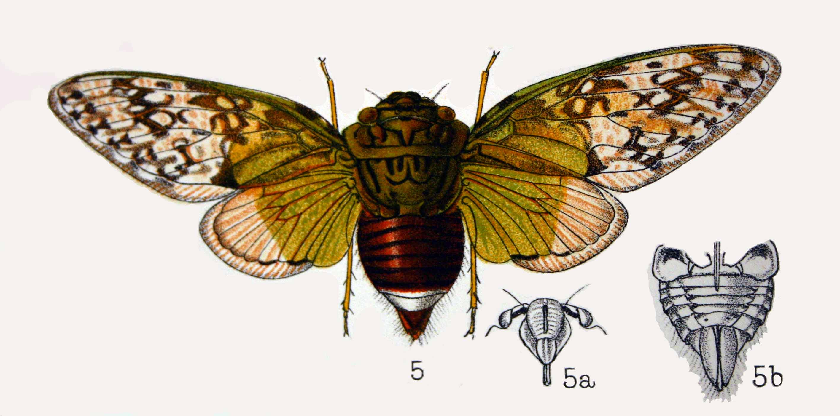 Pycna semiclara from Plate XVII of 'Insecta transvaaliensia'